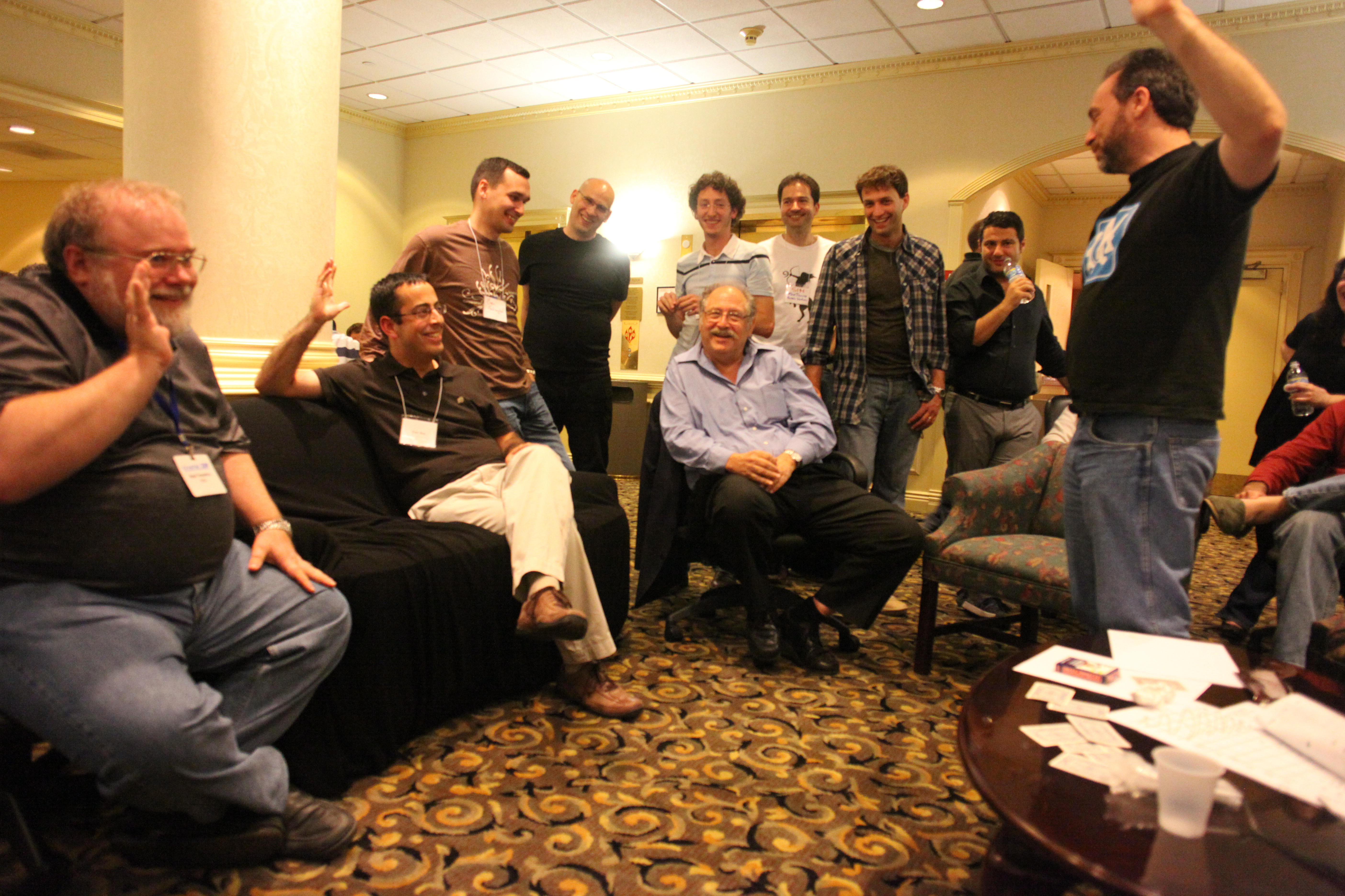 At Kinnernet USA games are a big part of the geeky campout. How many geeks can you pick out in this picture? Jimmy Wales is standing, he started wikipedia.